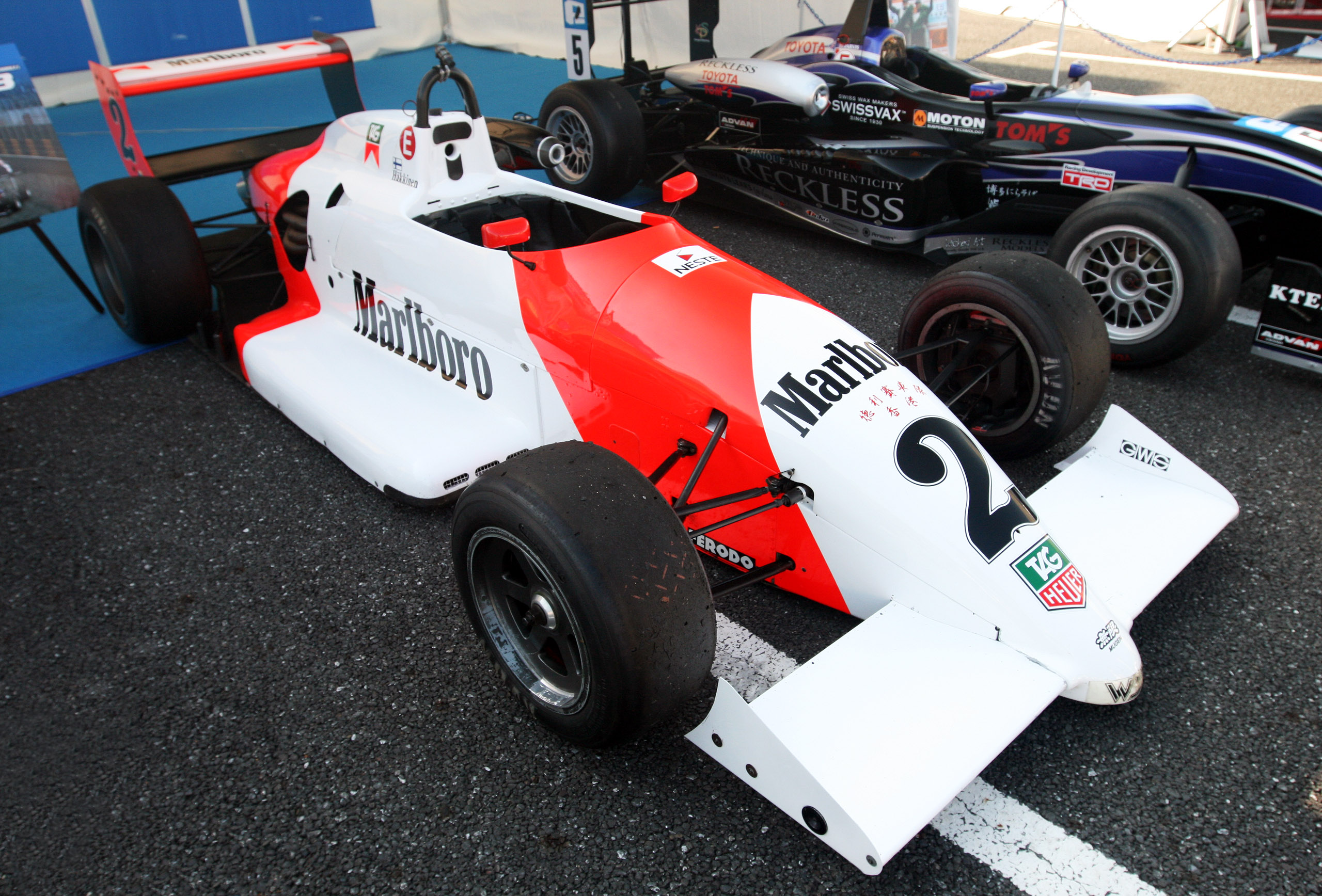 Motorsport Japan 2008: A replica 1988 Ralt RT34 F3 car of Mika Häkkinen for the 1990 Macau Grand Prix. Photograph taken in Odaiba, Tokyo, Japan.